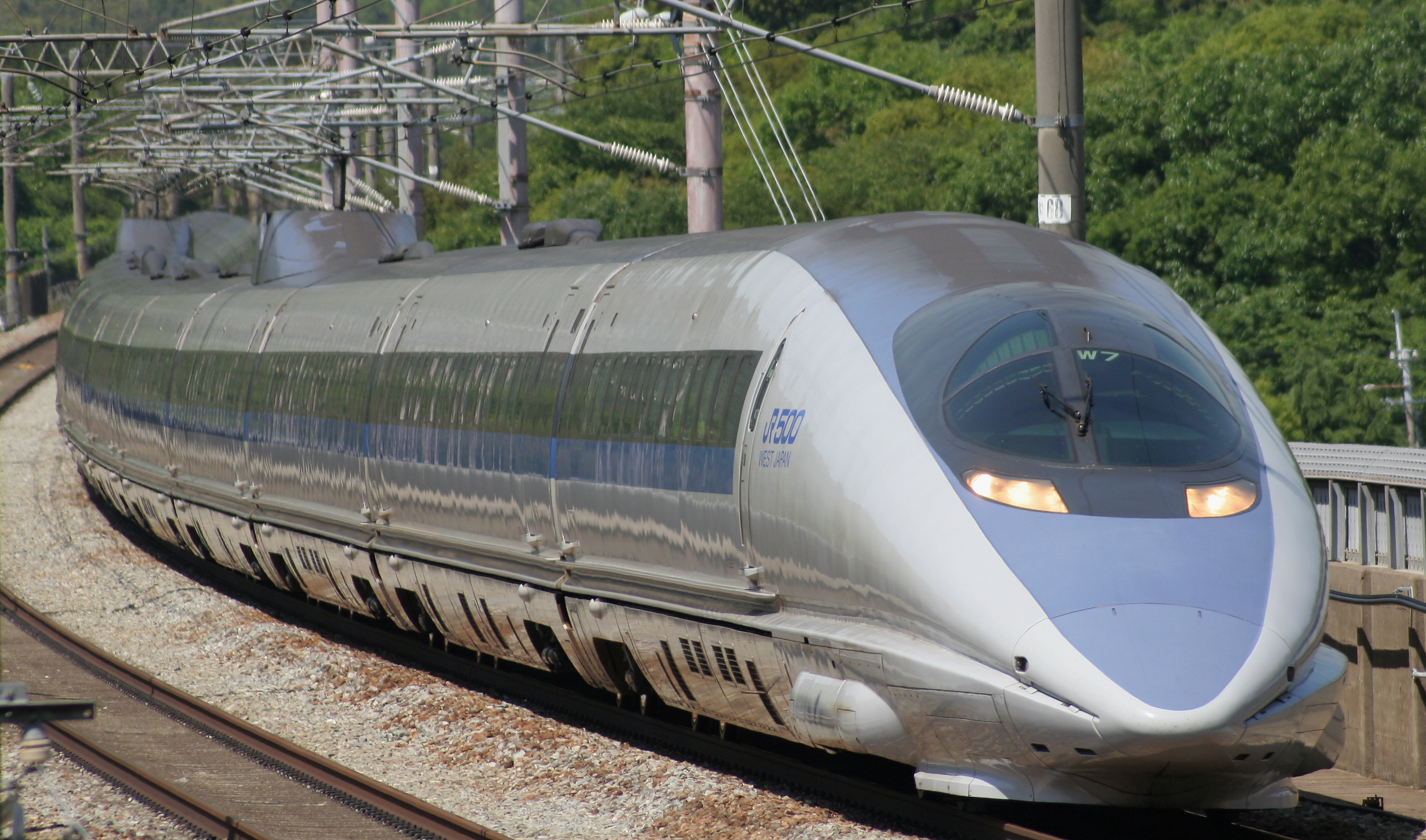 JR West 500 series shinkansen set W7 on the Nozomi 172 service for Tokyo on the Sanyo Shinkansen between Okayama and Aioi